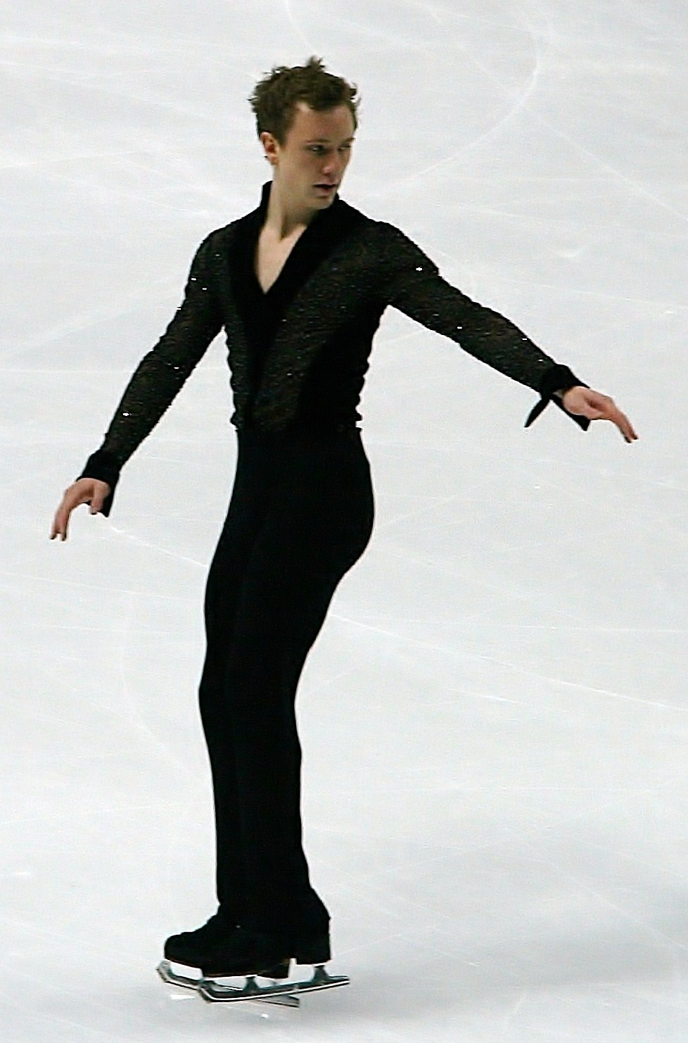 Ross Miner at the 2011 World Figure Skating Championships